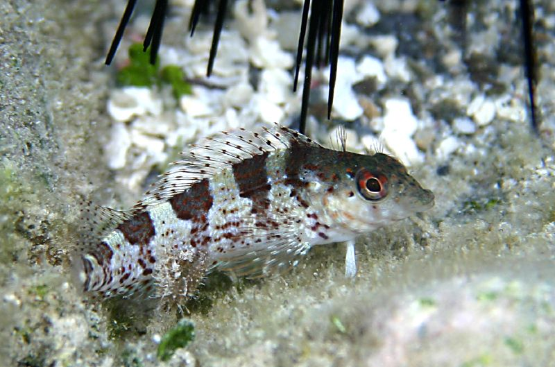 Saddled blenny (Malacoctenus triangulatus)